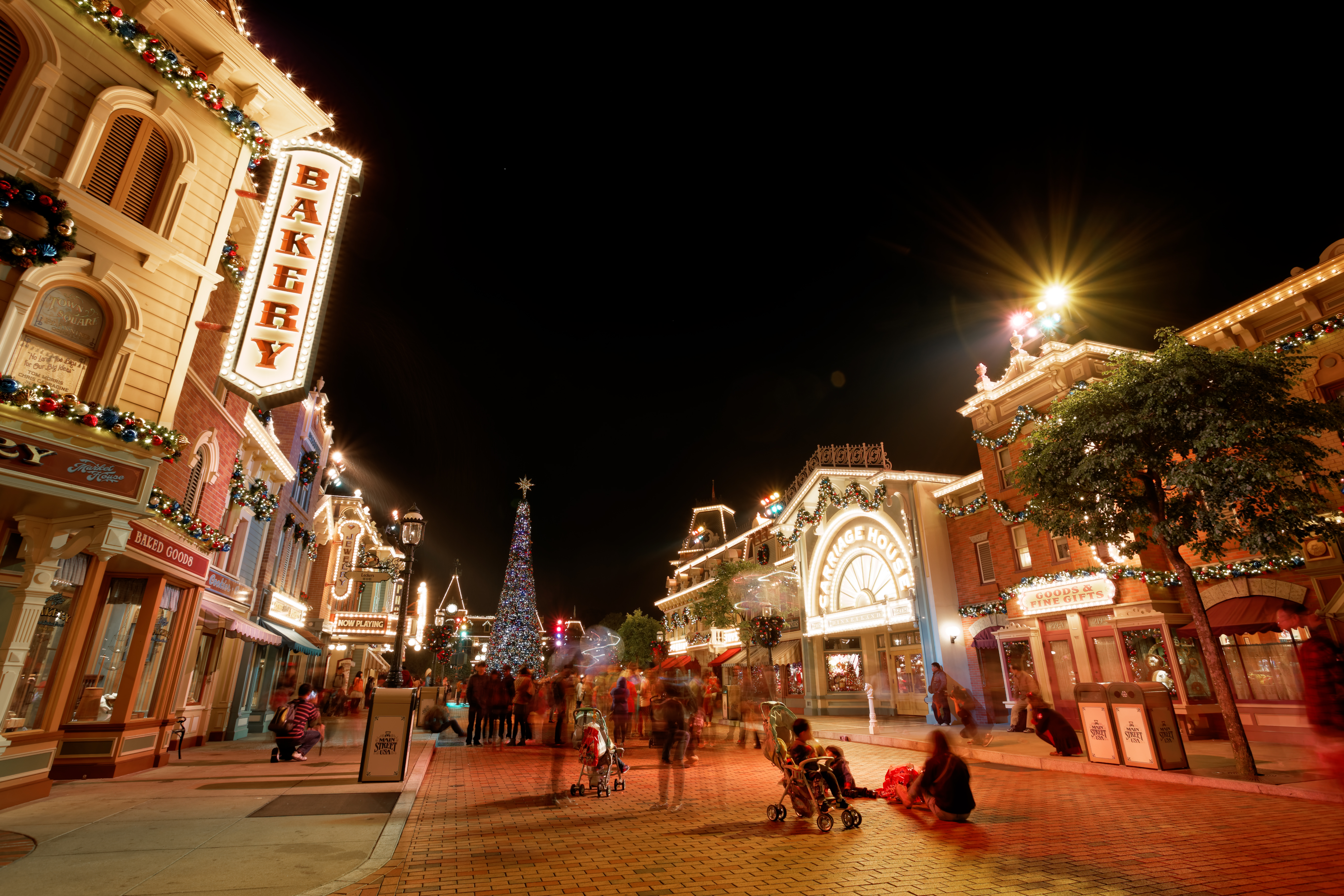 Hong Kong Disneyland Christmas Eve